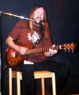 Egor Letov (leader of a russian siberian band Grazhdanskaya Oborona) live on stage during his solo concert at "Luise Cultfactory" in Nürnberg (Nuremberg), Germany (November 4, 2000)